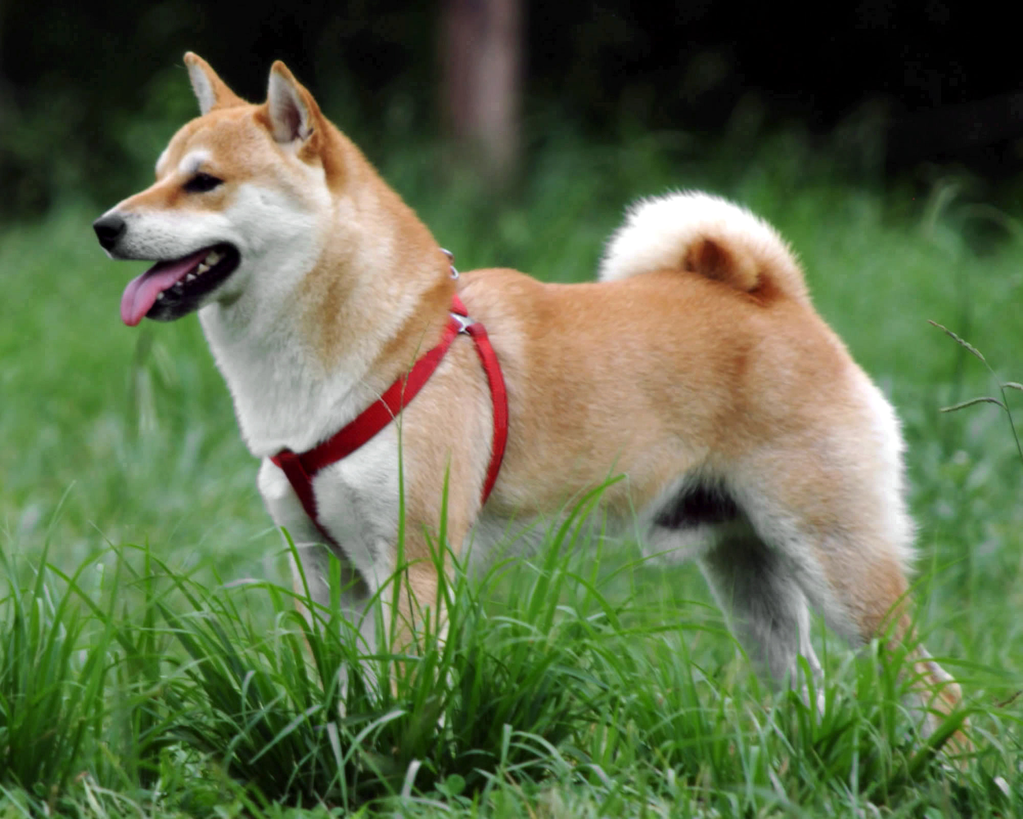 Shiba-Inu, one of the Japanese dog breeds.